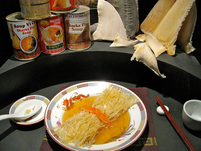 Picture of a shark conservation display at the Monterey Bay Aquarium.